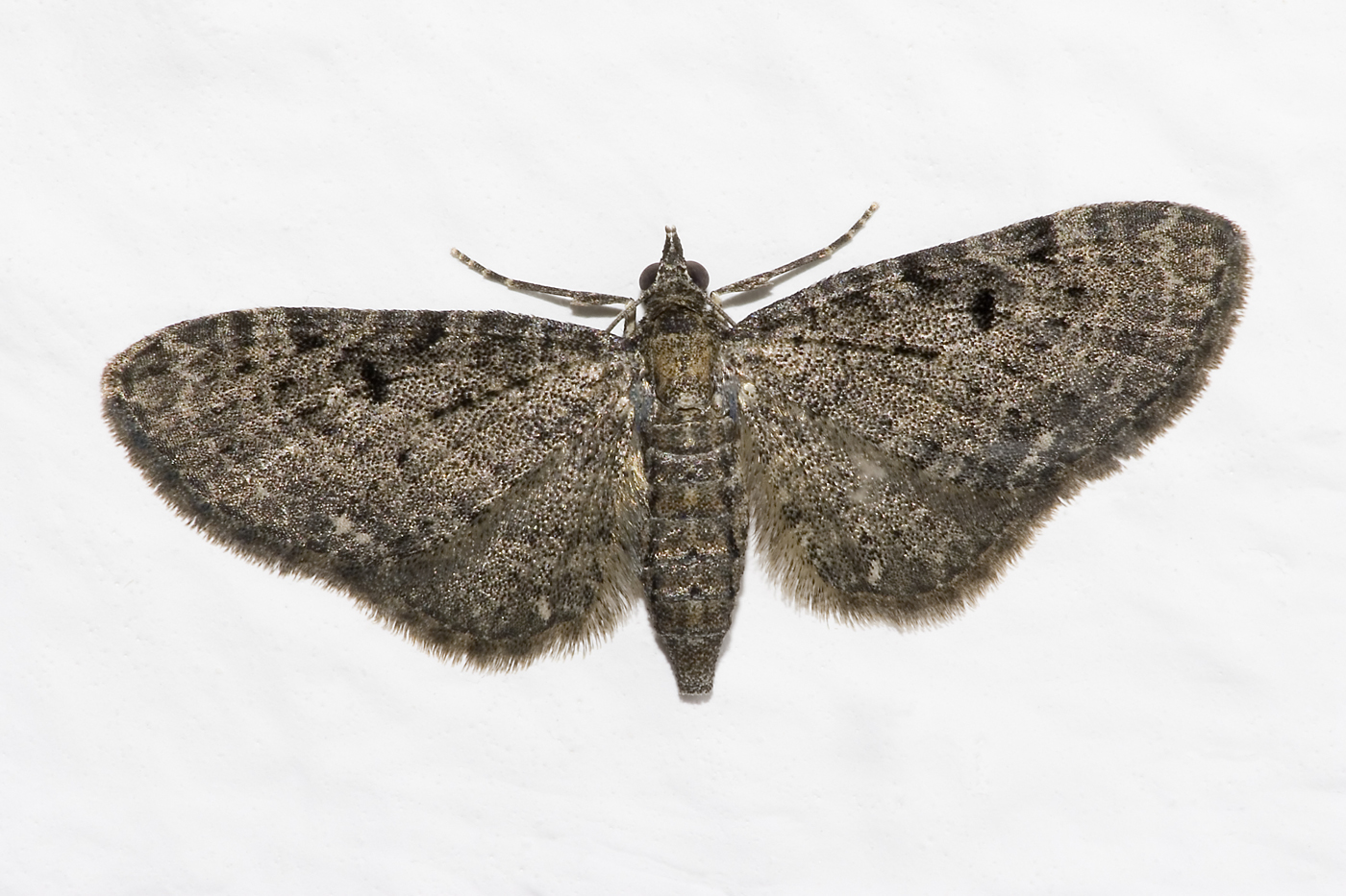 Golden-rod Pug (Eupithecia virgaureata), female; Thanks to Mr. Hans-Joachim Weigt from for determination!